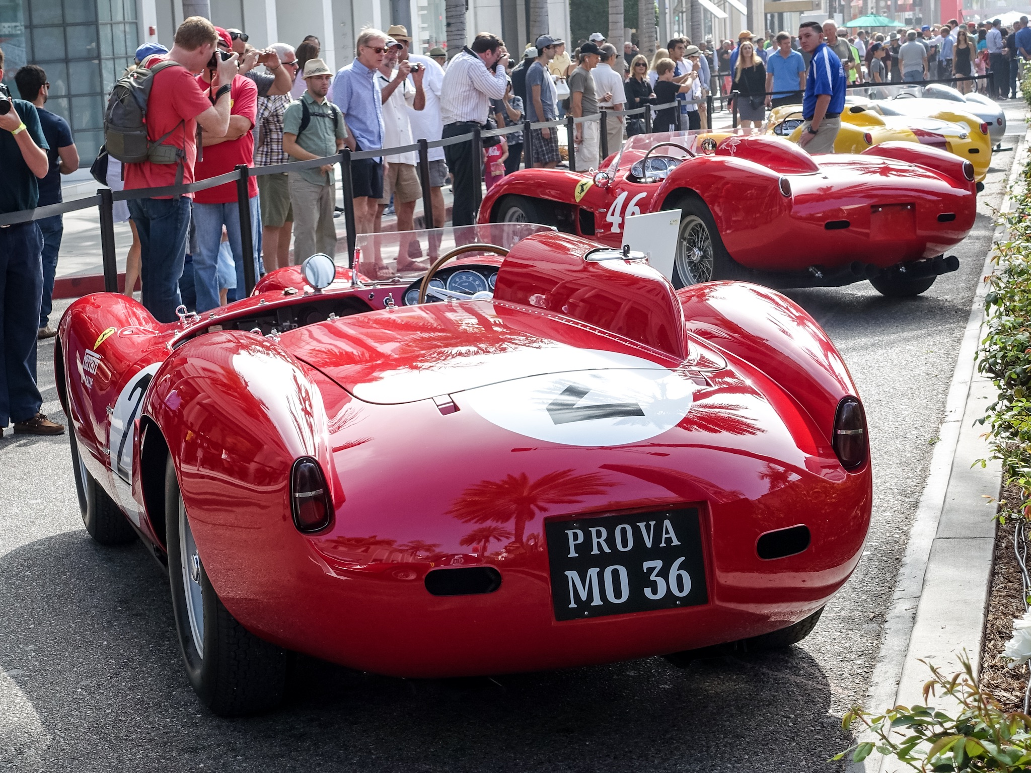 In front, a 1958 412 Monza s/n 0744MI. To its right, labelled #46 is a 250 Testa Rossa, s/n 0756TR. Then, the yellow/red is 1958 Ferrari 250 Testa Rossa s/n 0724TR.